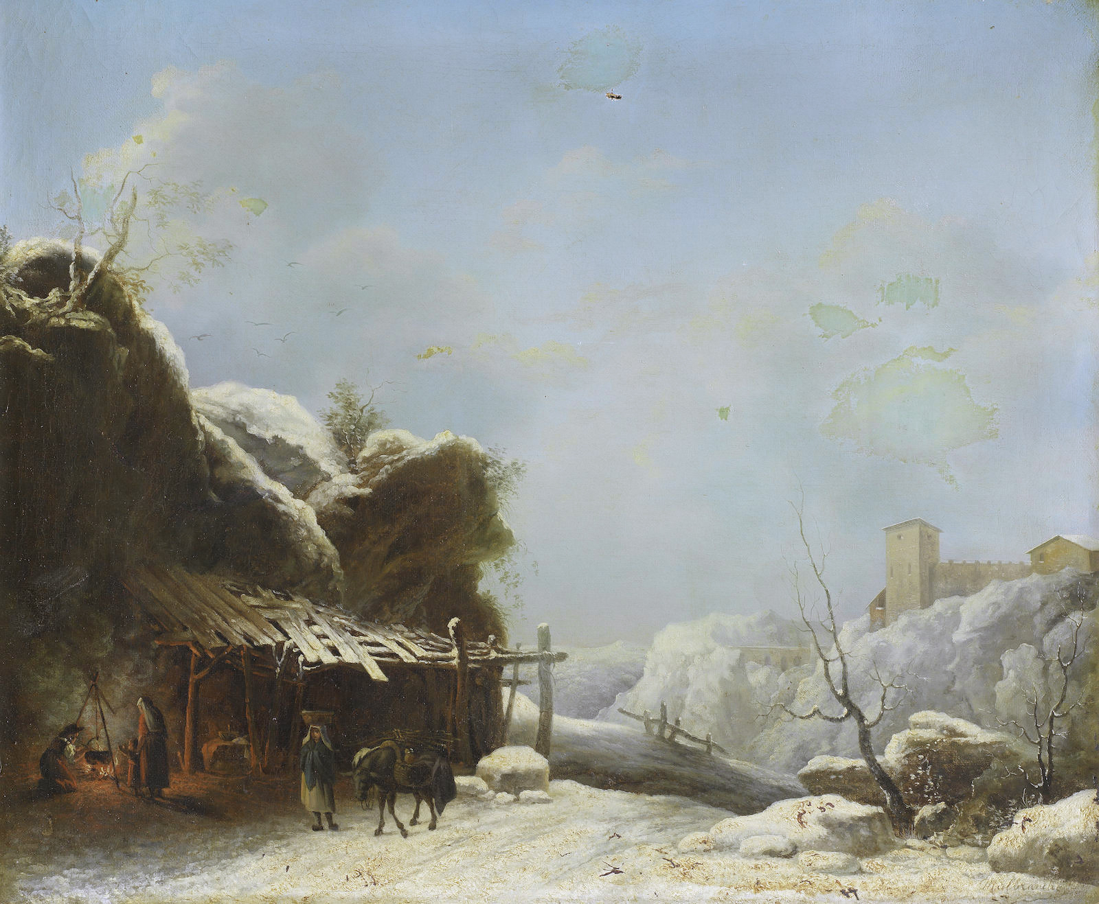 A winter landscape with a woman and her donkey on a path, a hilltop town beyond oil on canvas, unlined 45.3 x 55 cm signed b.r.: Malbranche